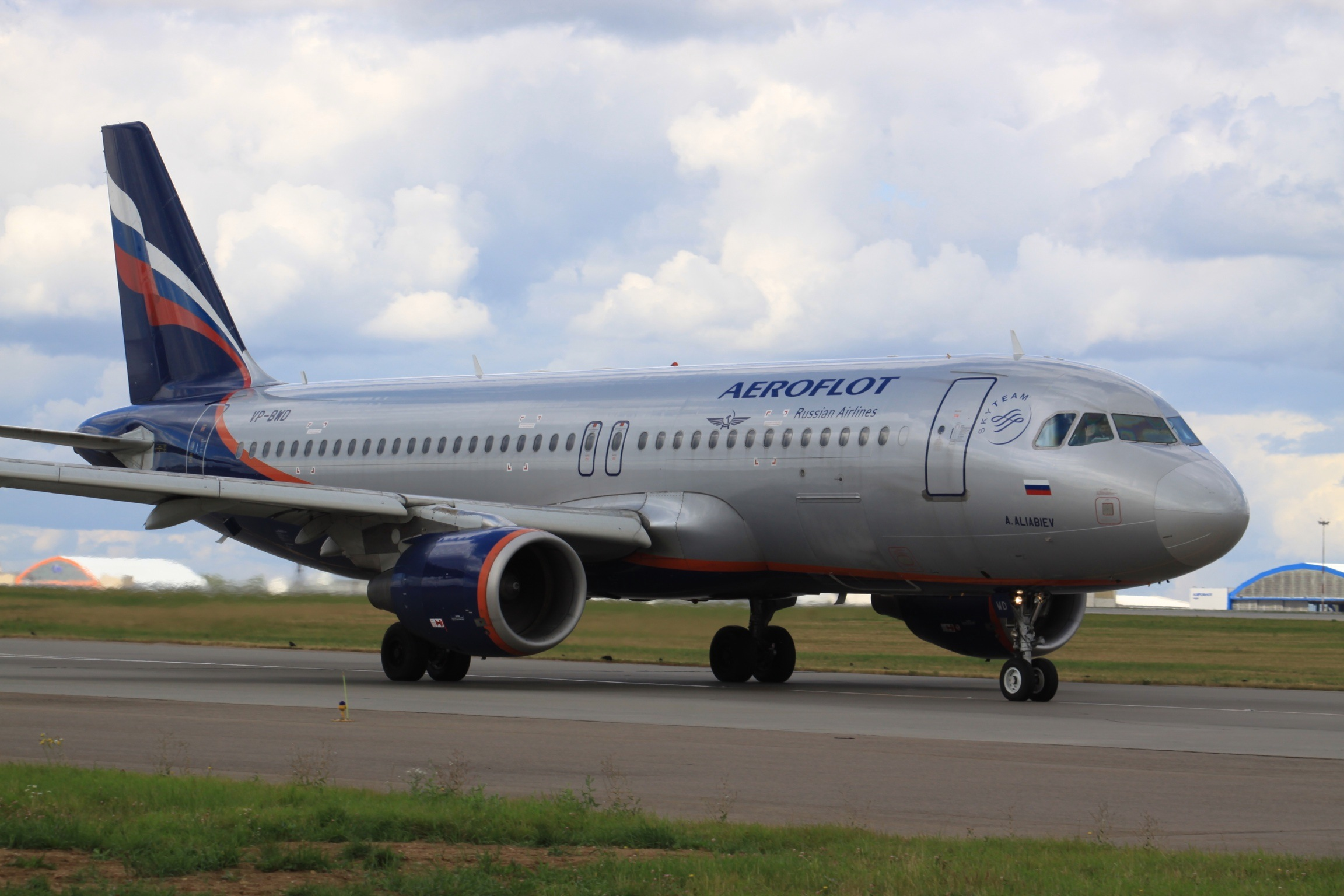 At Moscow Sheremetyevo